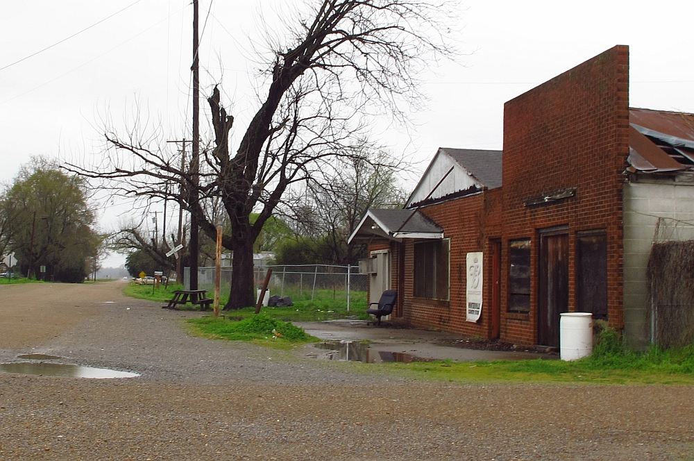 Winterville, Mississippi.